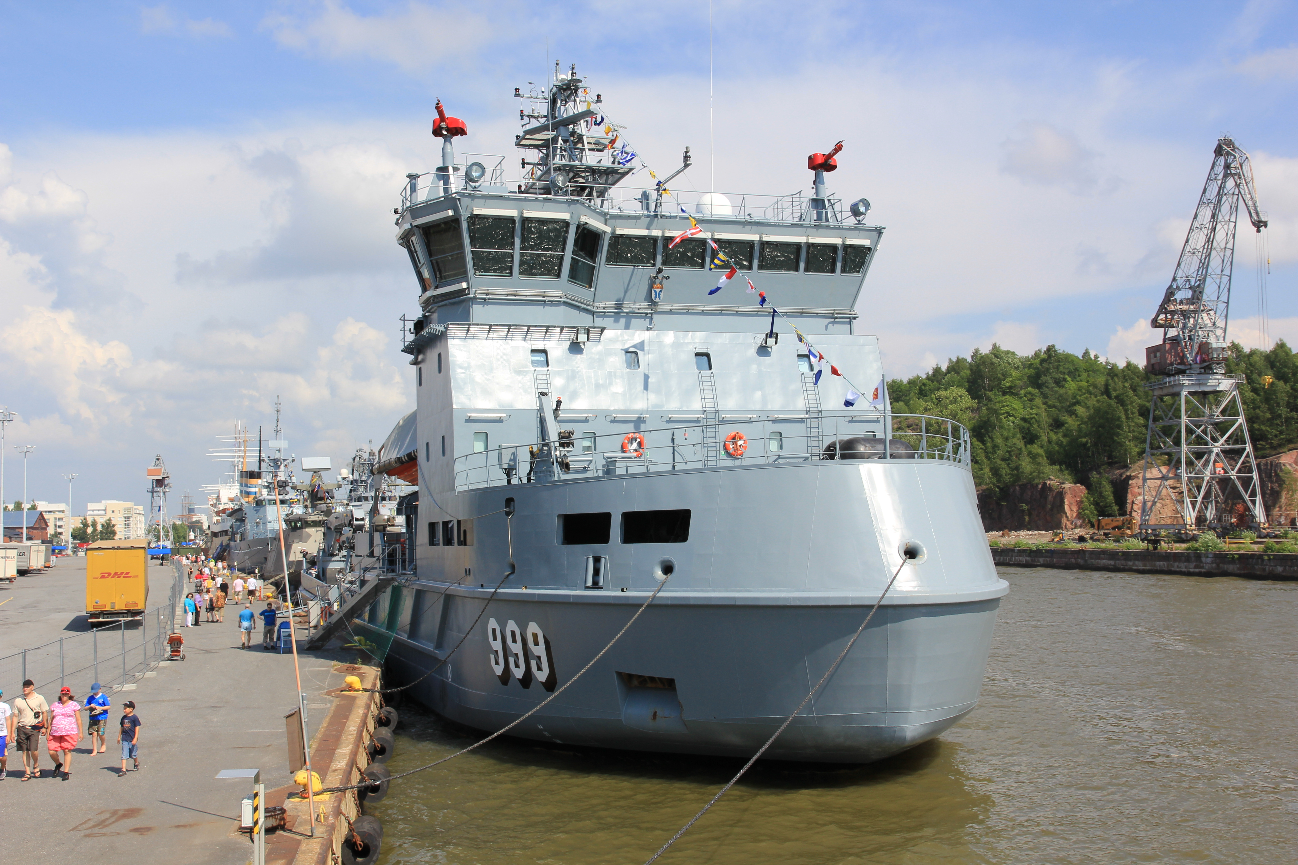 Finnish multifunction / pollution control vessel Louhi. Photographed during Finnish Navy 2011 anniversary in Turku.